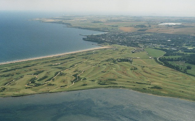 Aerial view of the links and town of St Andrews, Scotland